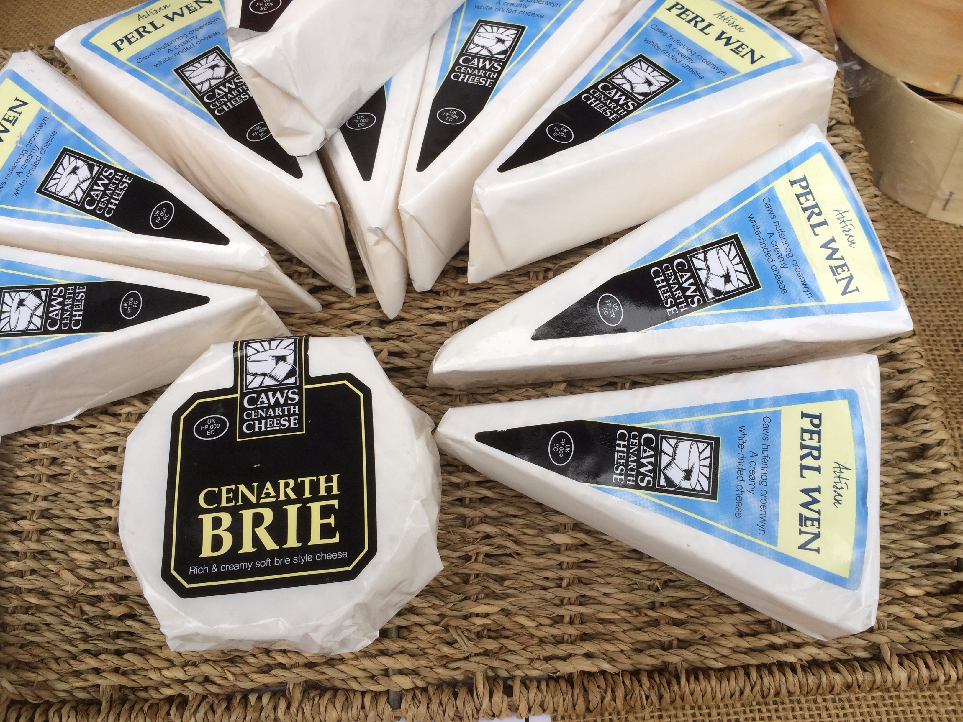 Pearl Wen cheese, produced by Caws Cenarth Cheese on sale at Uplands Market, Swansea, Wales